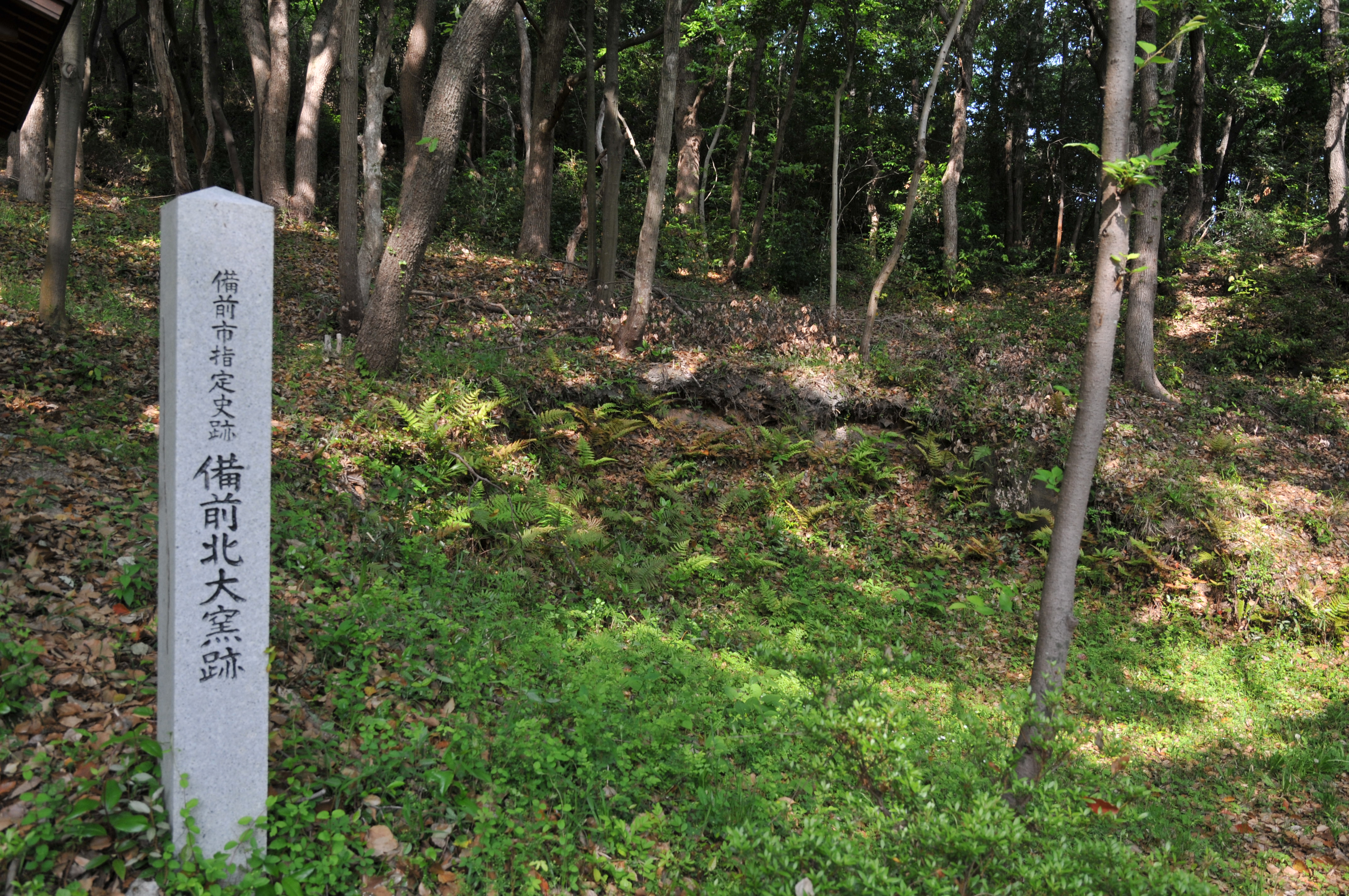 The site of Inbe Kita Ōgama